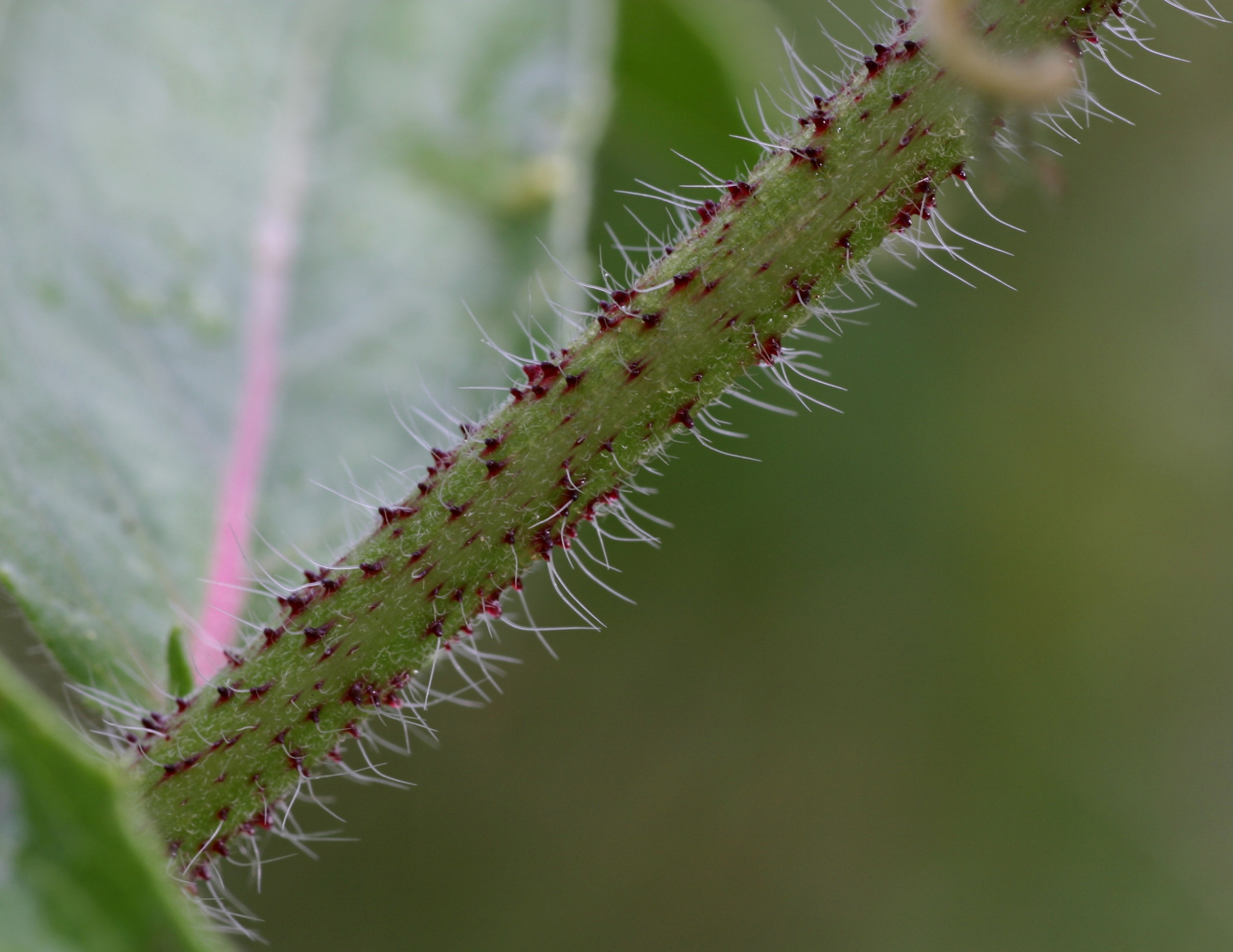 Oenothera erythrosepala, closeup op stipe